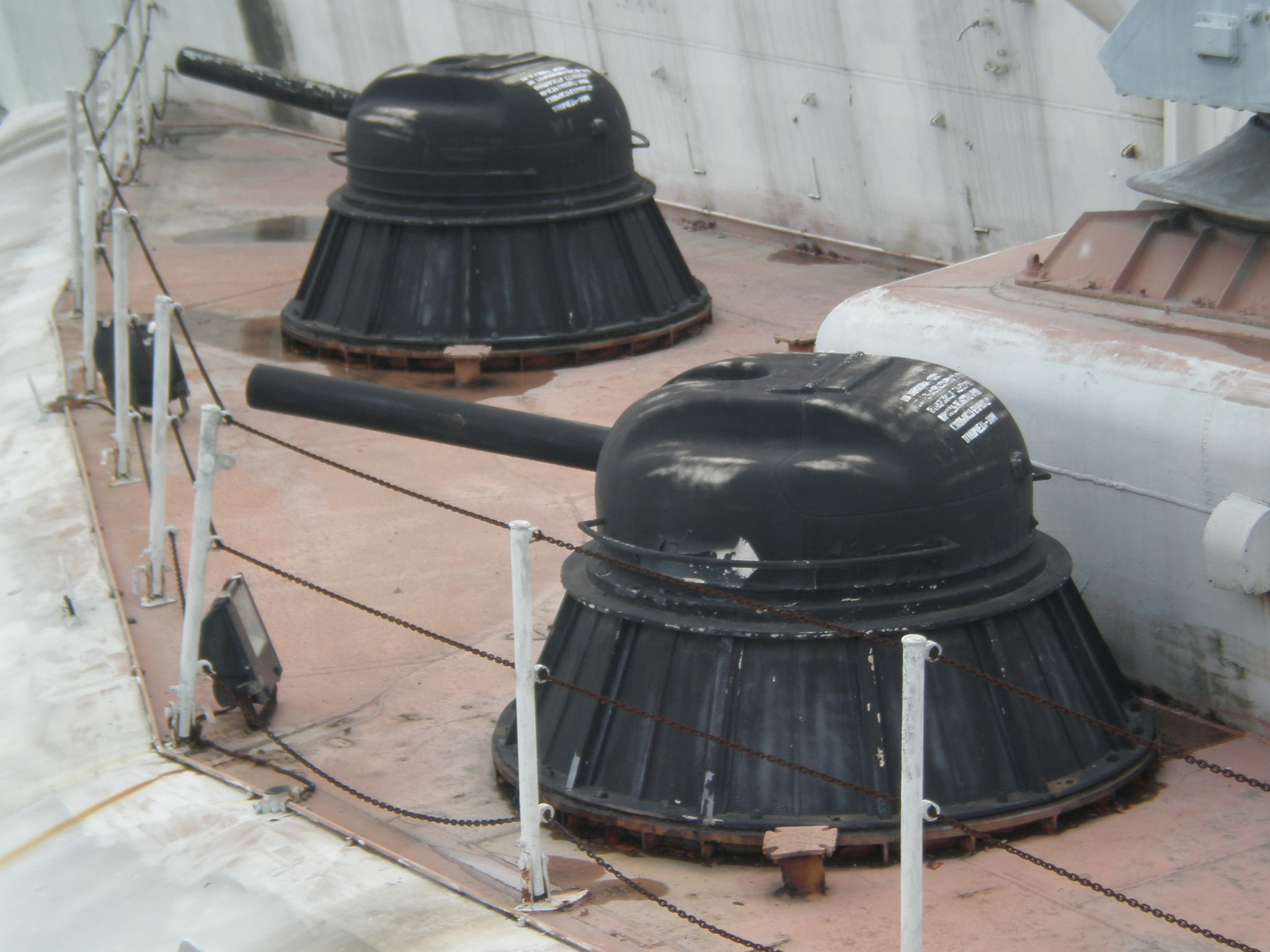 A pair of AK-630 CIWS guns on the port side of the bow of the aircraft carrier Minsk, located at the Minsk World theme park in Shenzhen, PRC. See Image:Minsk port bow.JPG.